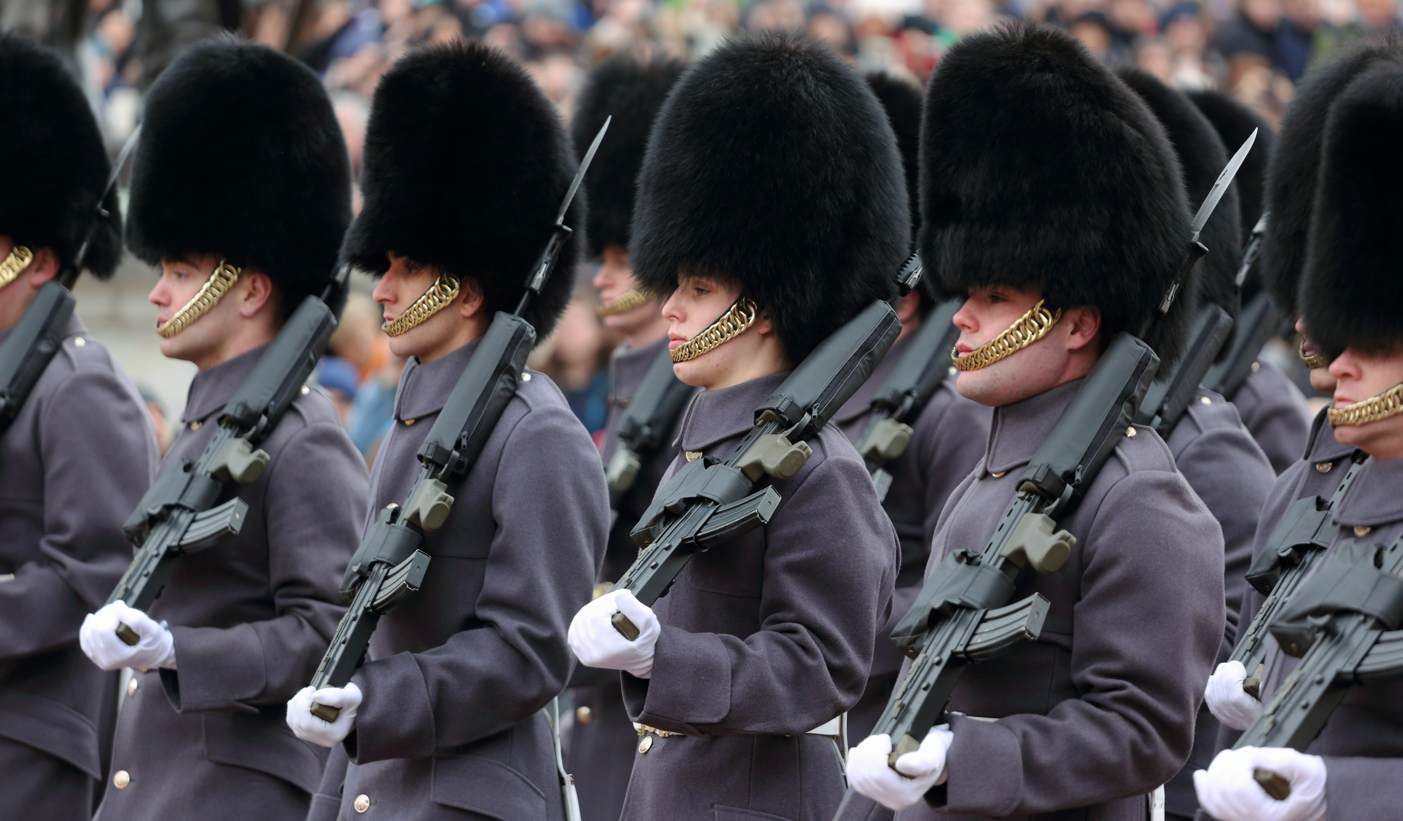 Changing the Guard, London, March 2013